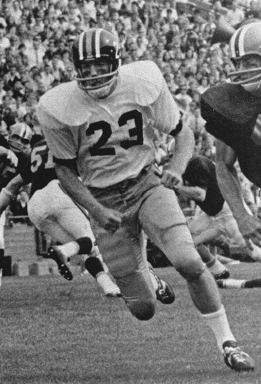 Roger Wehrli vs. Illinois